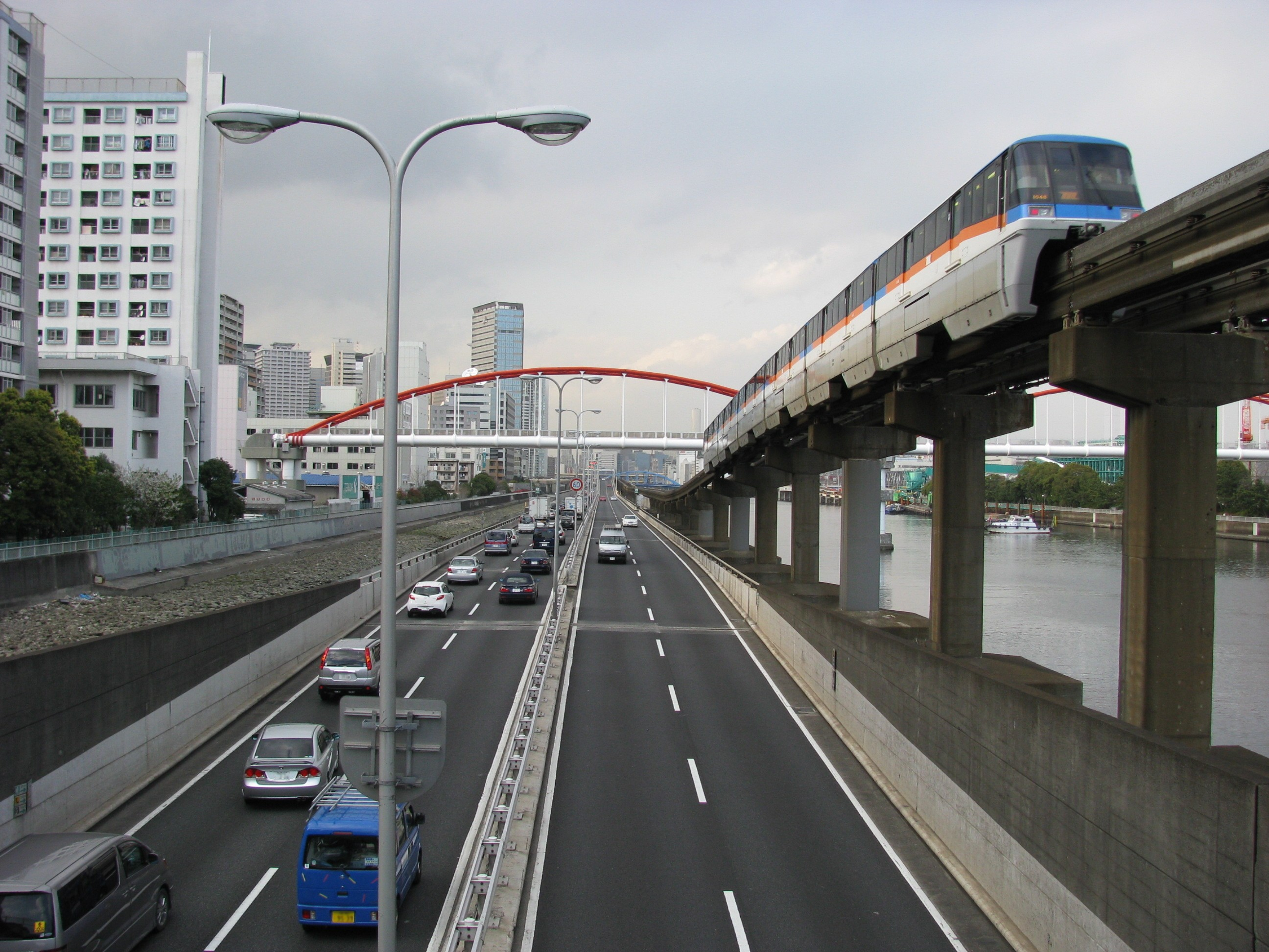 The Shuto kōsoku Route 1 is one of the Shuto kōsoku-doro (Shuto Expressway). Route 1 is connecting Ueno, Ginza, Shibaura, Haneda and the Route K1. The Route K1 is followed to Yokohama. The right is the Tokyo Monorail.